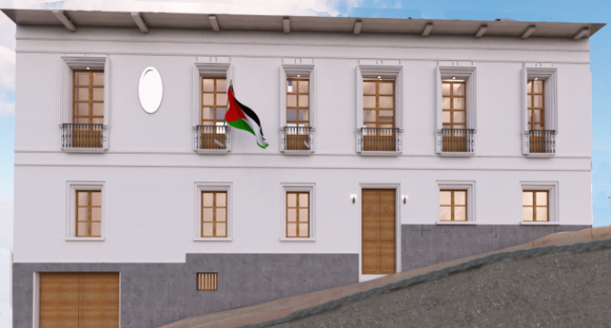 Embassy of Palestina in Ecuador